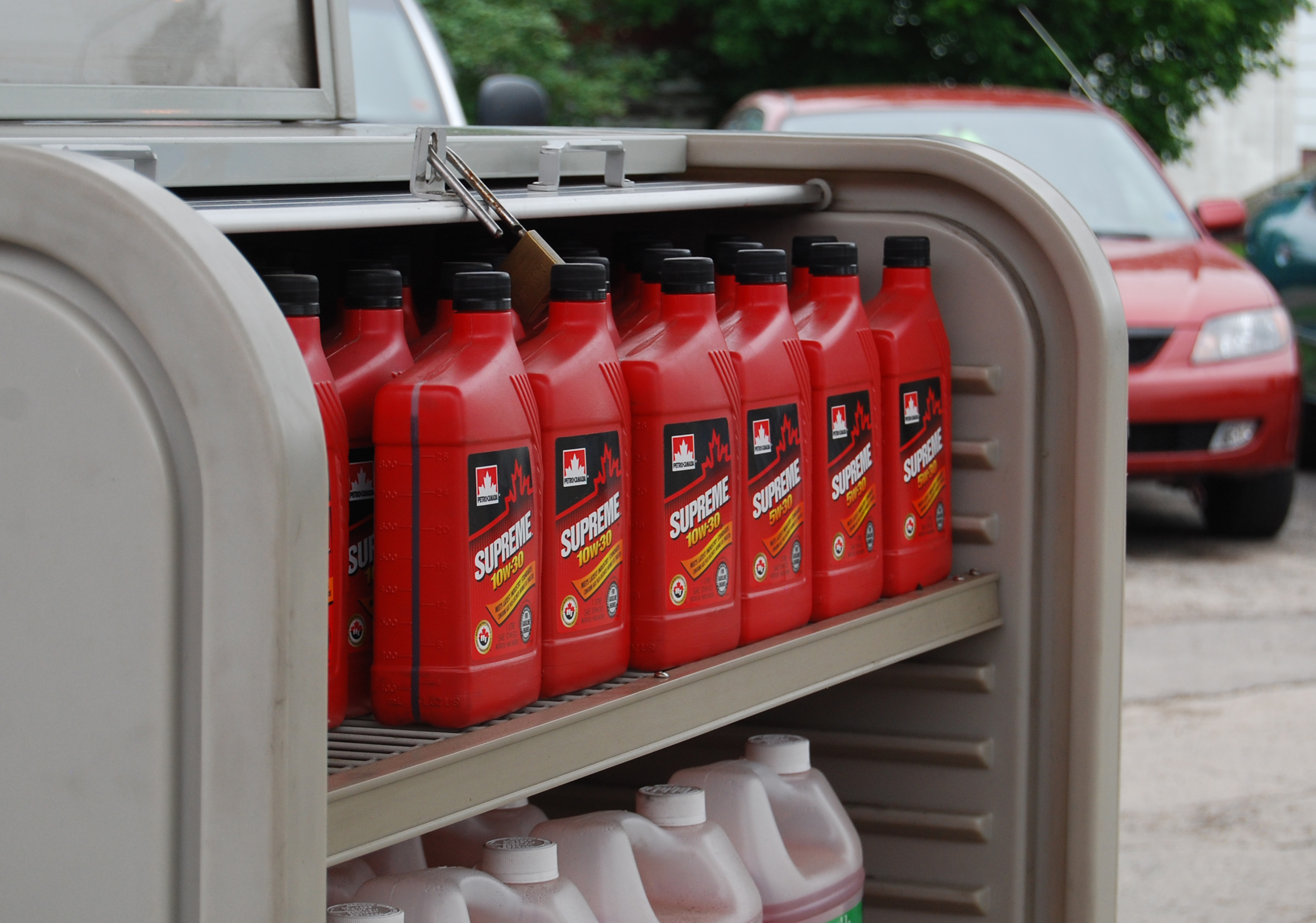 I, Myke Waddy took this photo, Sussex, New Brunswick Canada.